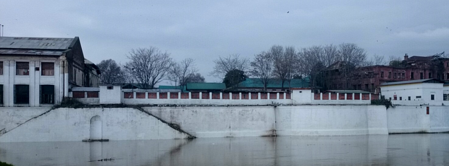 The Sher Ghari Palace in ruins after fire.